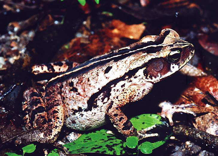 Bufo ornatus